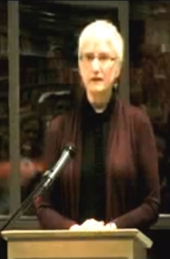 Screenshot from video of Molly Gloss reading for Ars Poetica at Eastern Oregon University. "The Hearts of Horses" is a novel about a young woman breaking horses for several ranchers in Eastern Oregon in the winter of 1917. Author Jane Kirkpatrick calls the Oregon Book Award finalist "one of the best books you'll ever read." Gloss has garnered other prizes including the PEN Center West Fiction Prize for her book "The Dazzle of Day," as well as the Pacific Northwest Booksellers and the Oregon Book awards for her novel "Jump Off Creek." "The Hearts of Horses" (2007) After spending her childhood in rural Oregon, Gloss began writing seriously when she became a mother. Since, she has been a particular favorite of Northwestern readers and currently lives in Portland. Gloss has taught writing and literature of the American West at Portland State University, and served as visiting professor at Pacific University's master of fine arts in writing program.